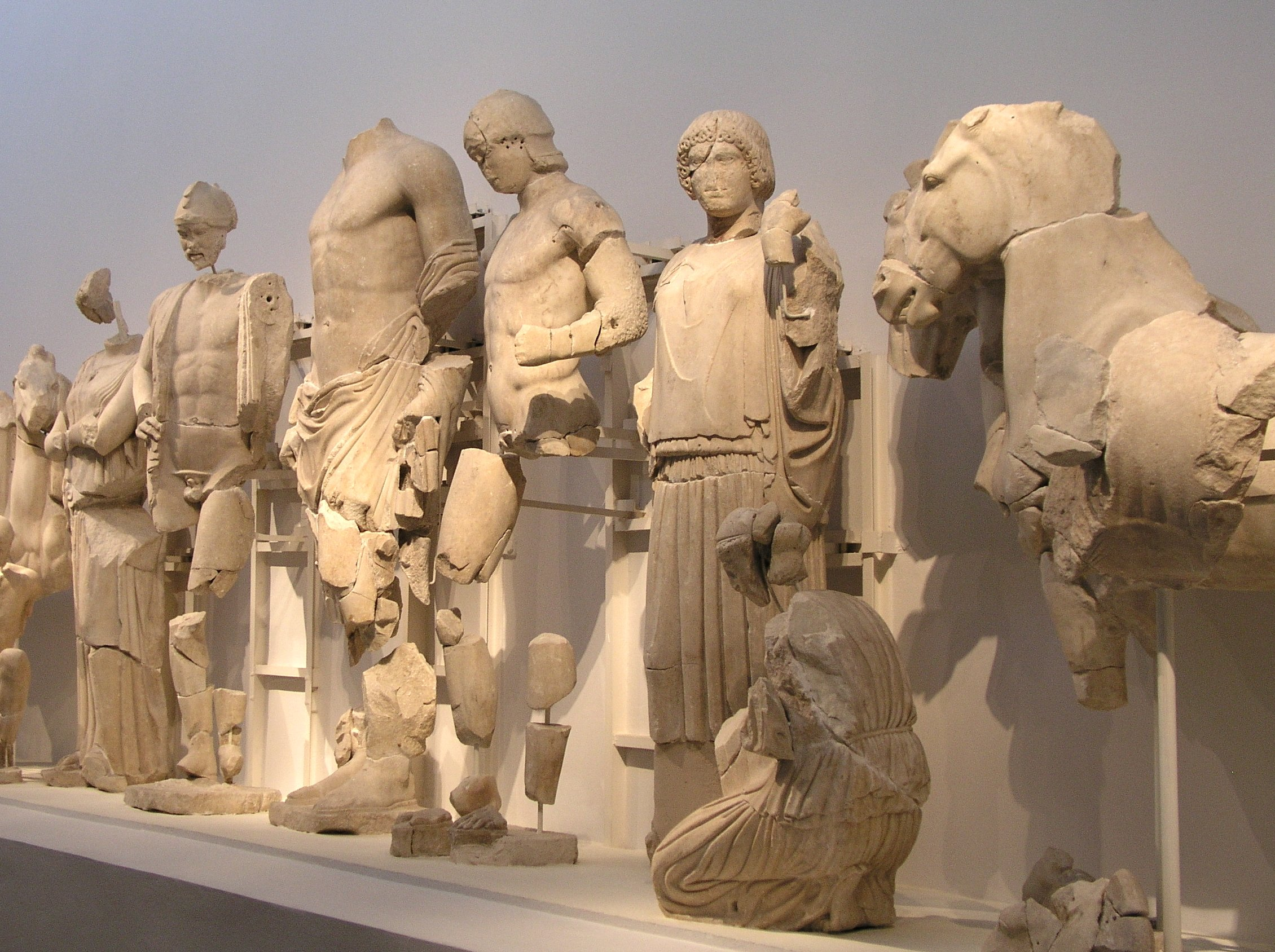 Sculptures of the east pediment of the Temple of Zeus at Olympia. Olympia Archaeological Museum.